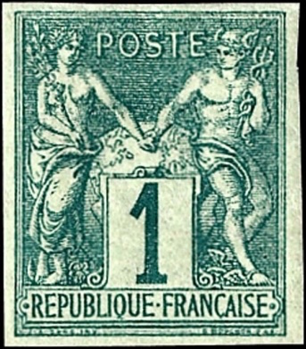 A French Colonies imperforate 1c green on greenish Peace and Commerce (Type Sage) stamp (Scott 24).